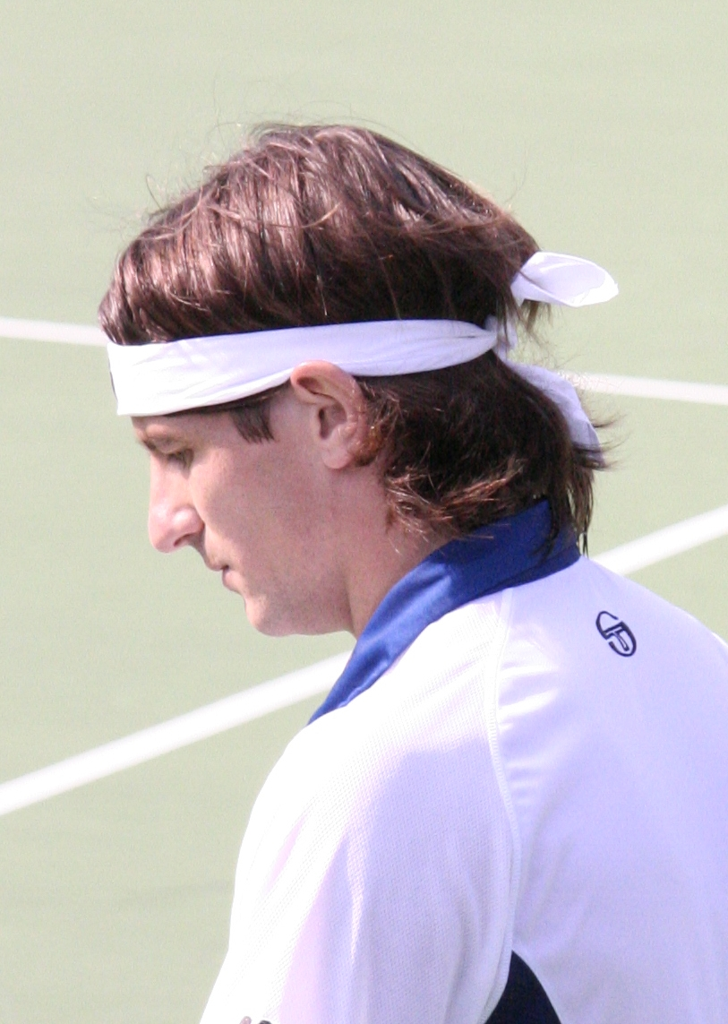 Tommy Robredo at their first-round match of the 2007 Australian Open.